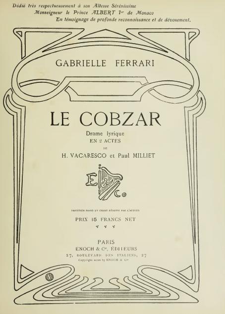 Frontpage of the 1909 opera Le Cobzar by Gabrielle Ferrari